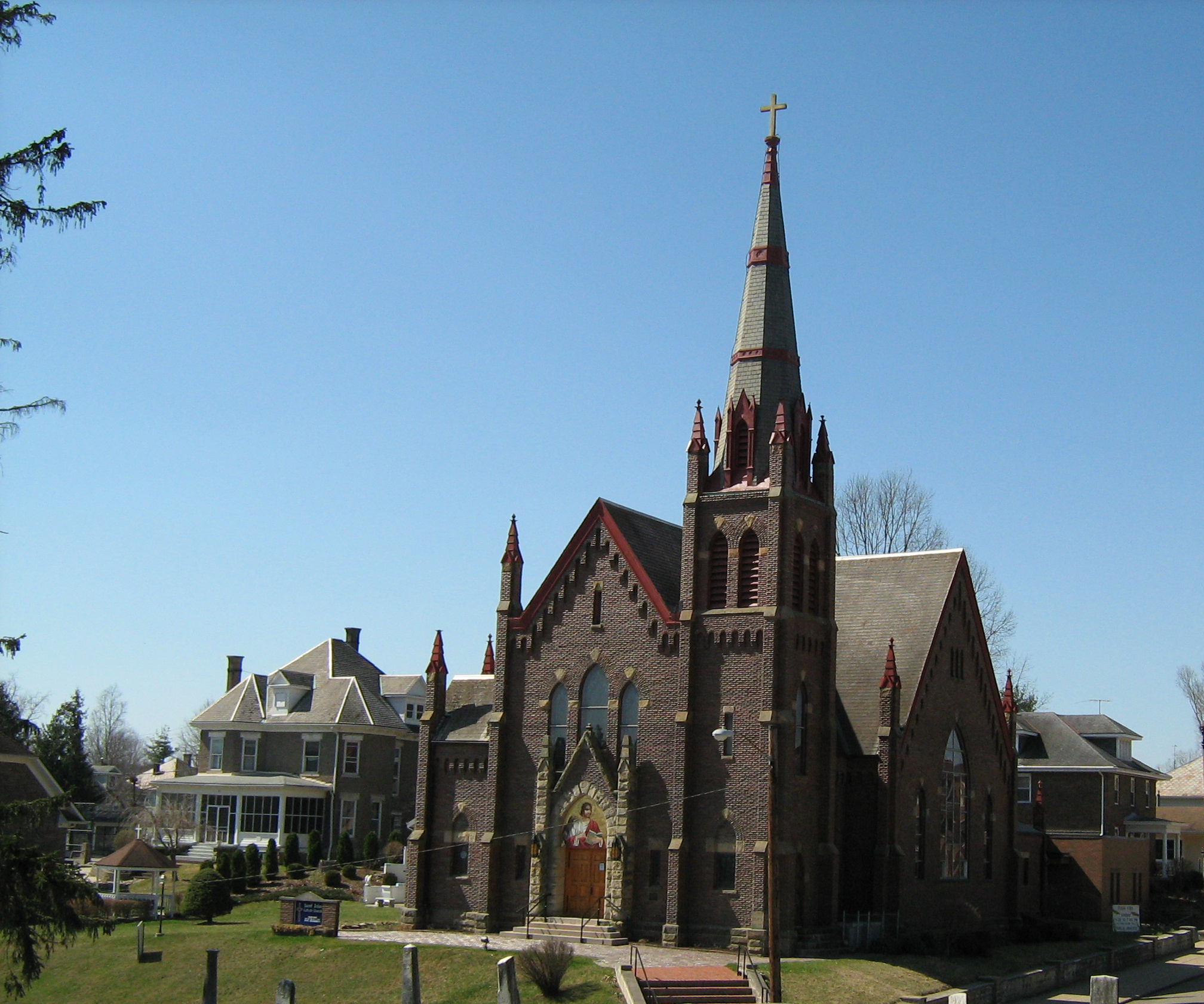 View of the north half of Saint John the Evangelist Catholic Church Complex at 351 N. Market St. in Logan, Hocking County, Ohio, United States. Built in 1897, the Complex is listed as a district on the National Register of Historic Places.